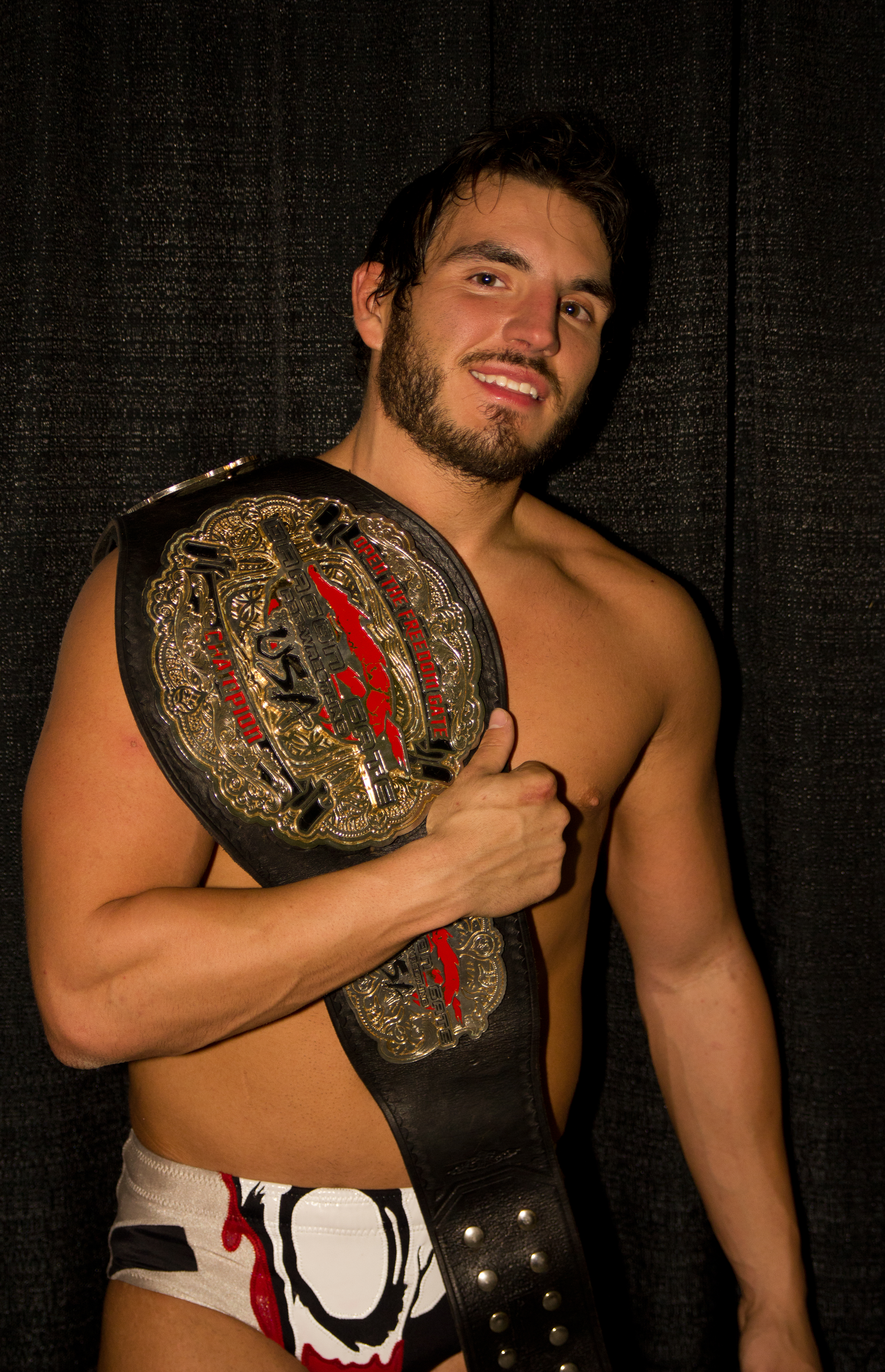 Independent wrestler Johnny Gargano with the DGUSA Open the Freedom Gate Championship